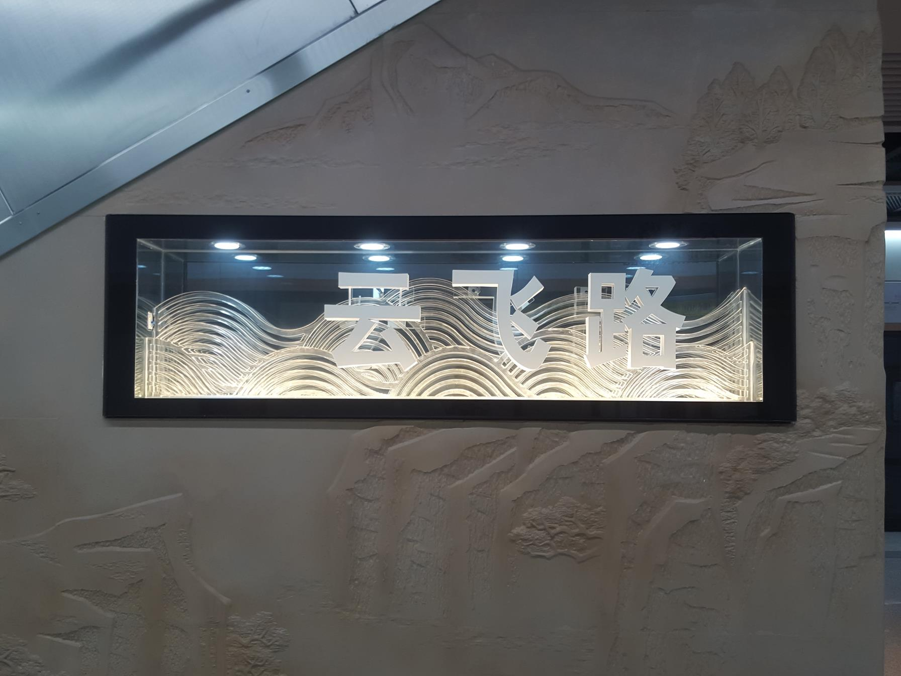 Name Box of Yunfei Road Station, Wuhan Metro